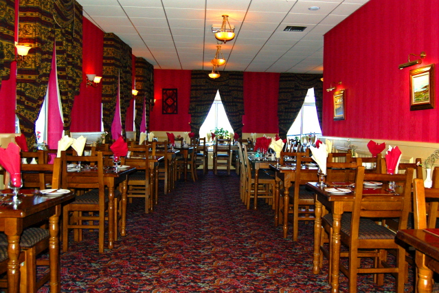 Glassagh - Teac Jack's Hotel dining room We ate breakfast here in the dining room every morning. We ate dinner in the pub here every eevening.